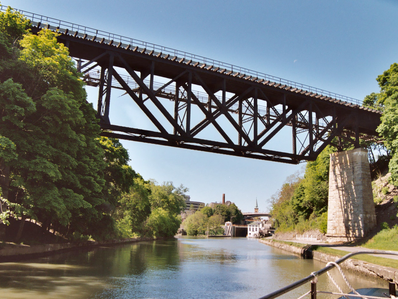 This is an example of a deck truss, with the railroad roadbed atop the truss. The bridge is the first bridge downstream of the Niagara Escarpment locks on the Erie Canal at Lockport, New York.